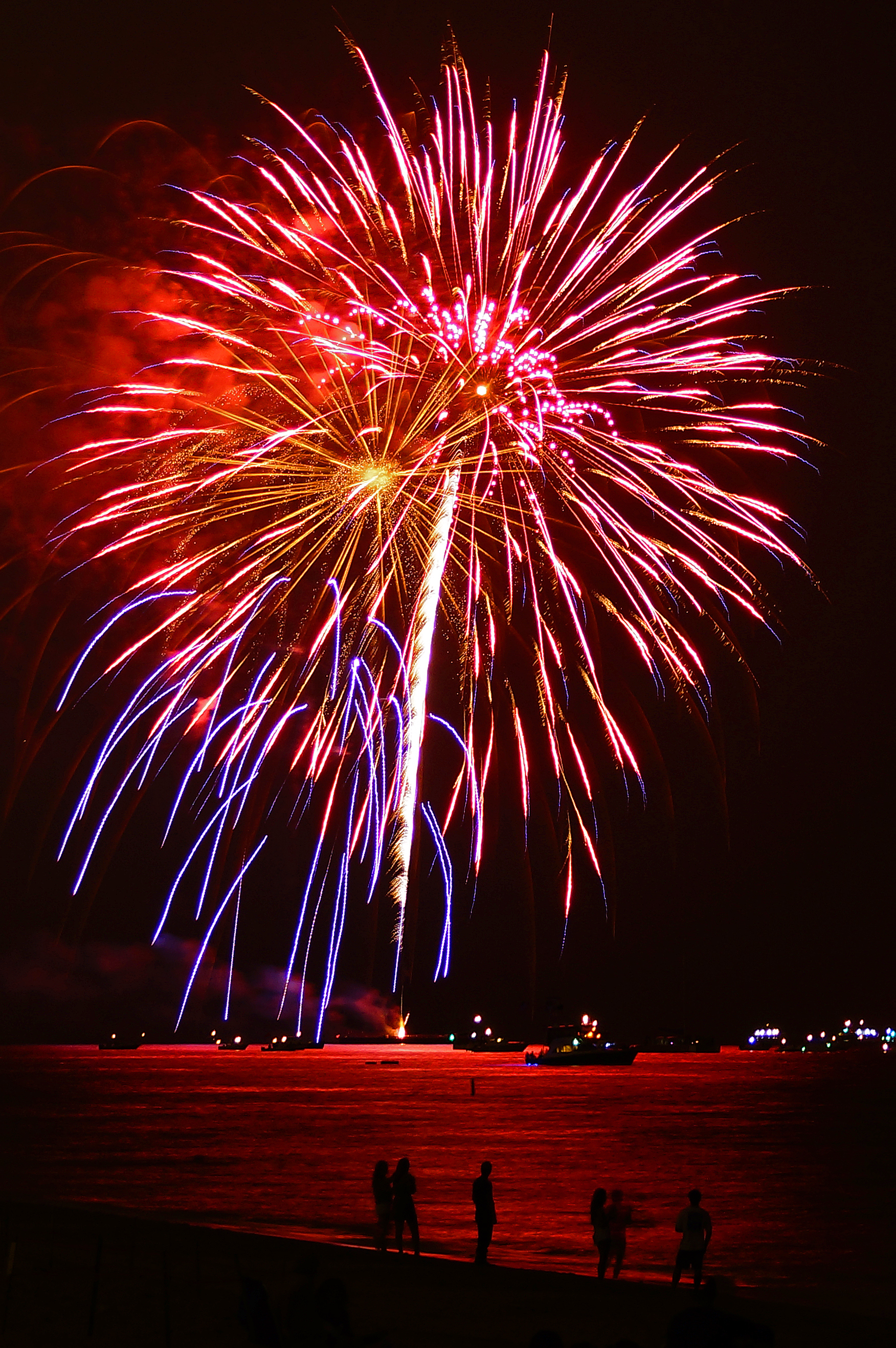 Family trek to the Beach at Ft. Lauderdale to celebrate the 4th of July. Brought a tripod and hoped for the best...Thanks to R&S for the gracious invite! Meet you here next year!